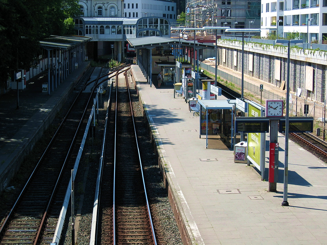 train station of Hamburg-Blankenese